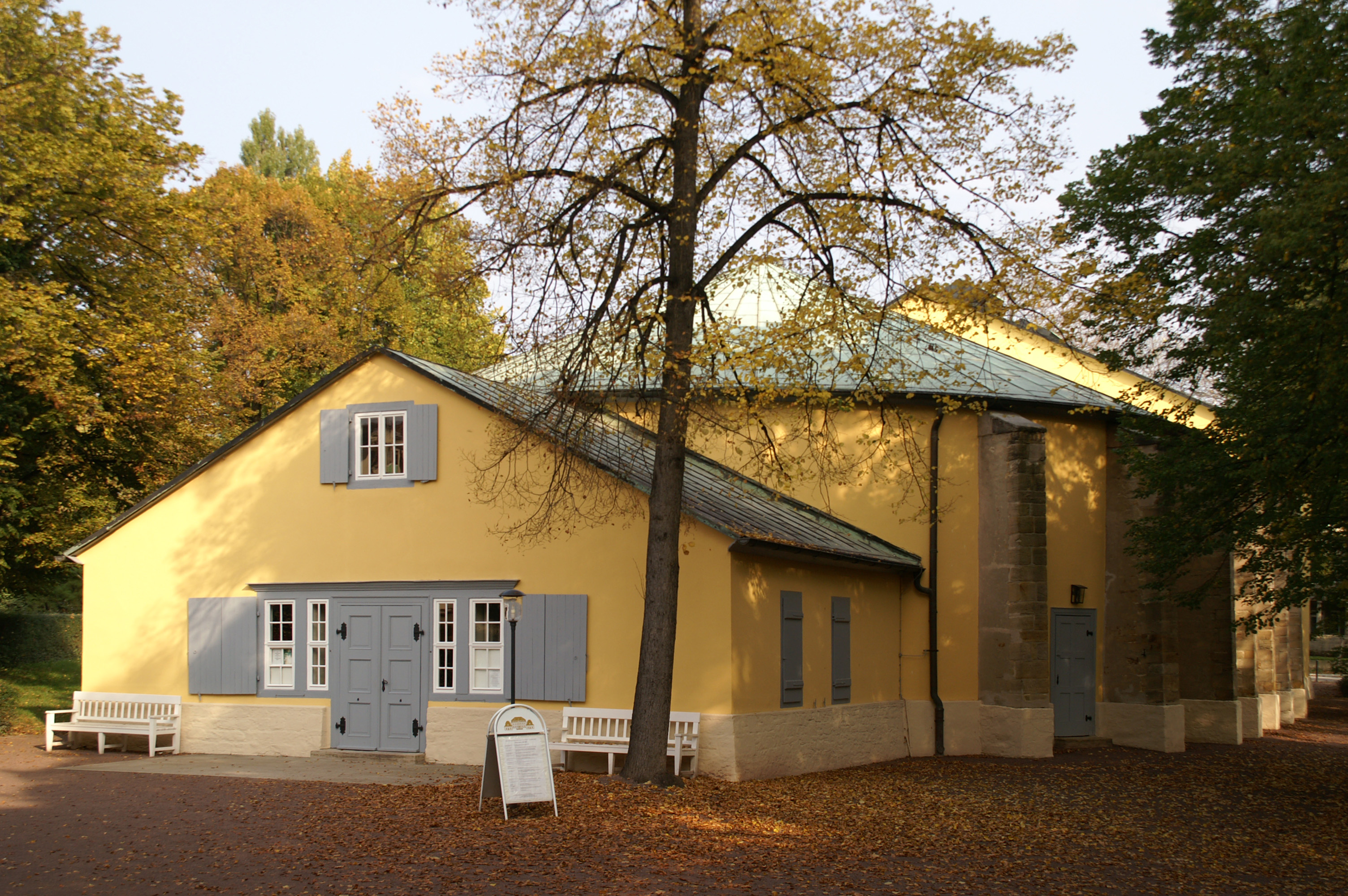 Goethetheater (Goethe Theatre) in Bad Lauchstädt, Saxony-Anhalt, Germany